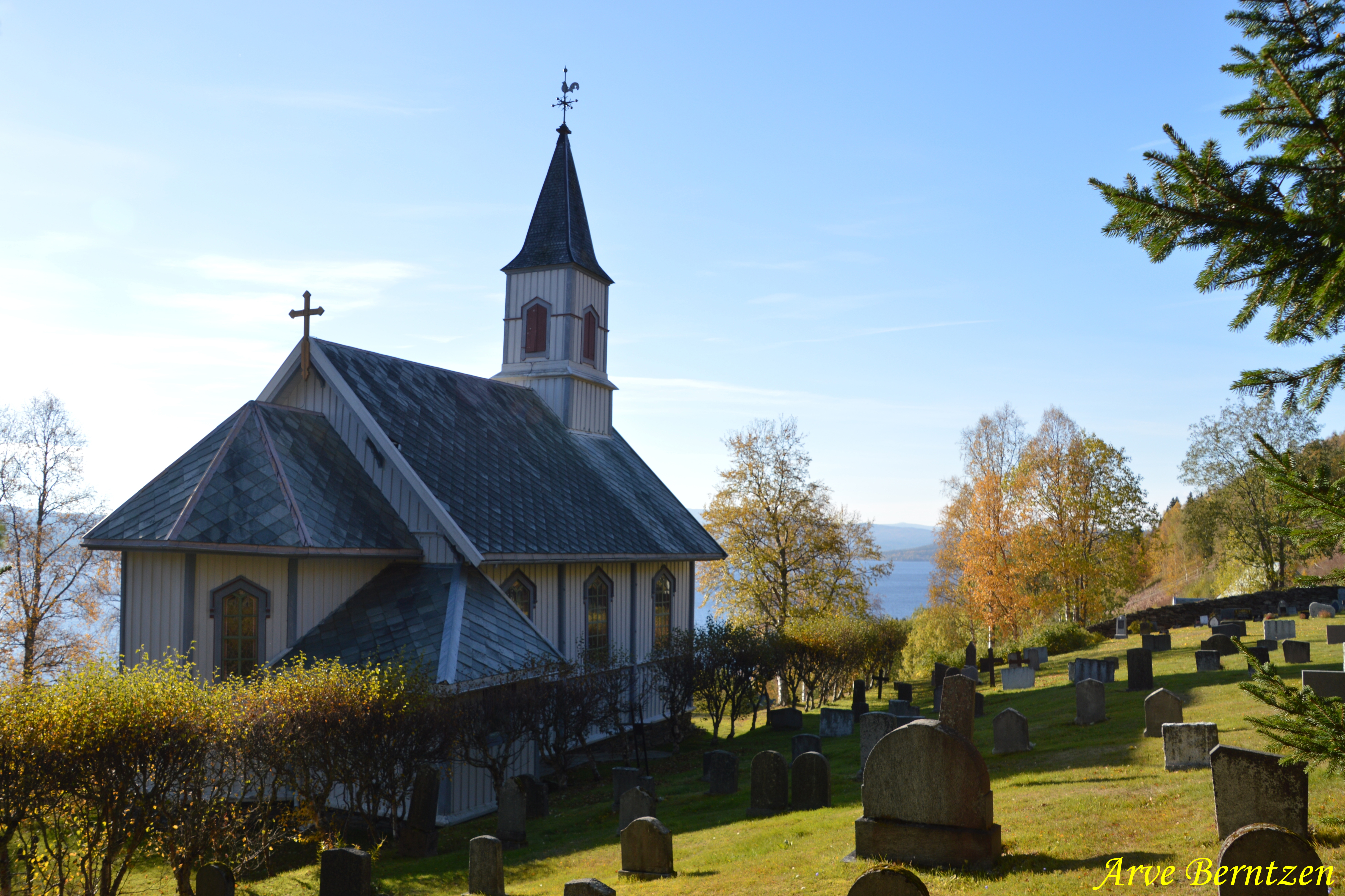 Nordli church in Lierne, Nord-Trøndelag, Norway, from 1873. Architect Carl Julius Bergstrøm.